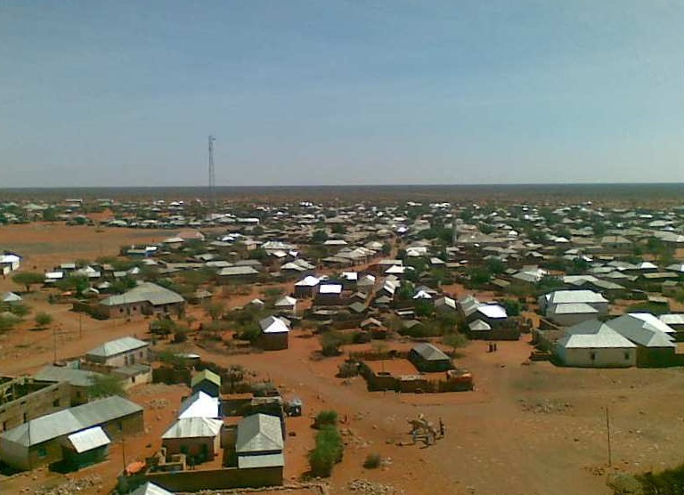 Aerial view of Galdogob, Somalia.